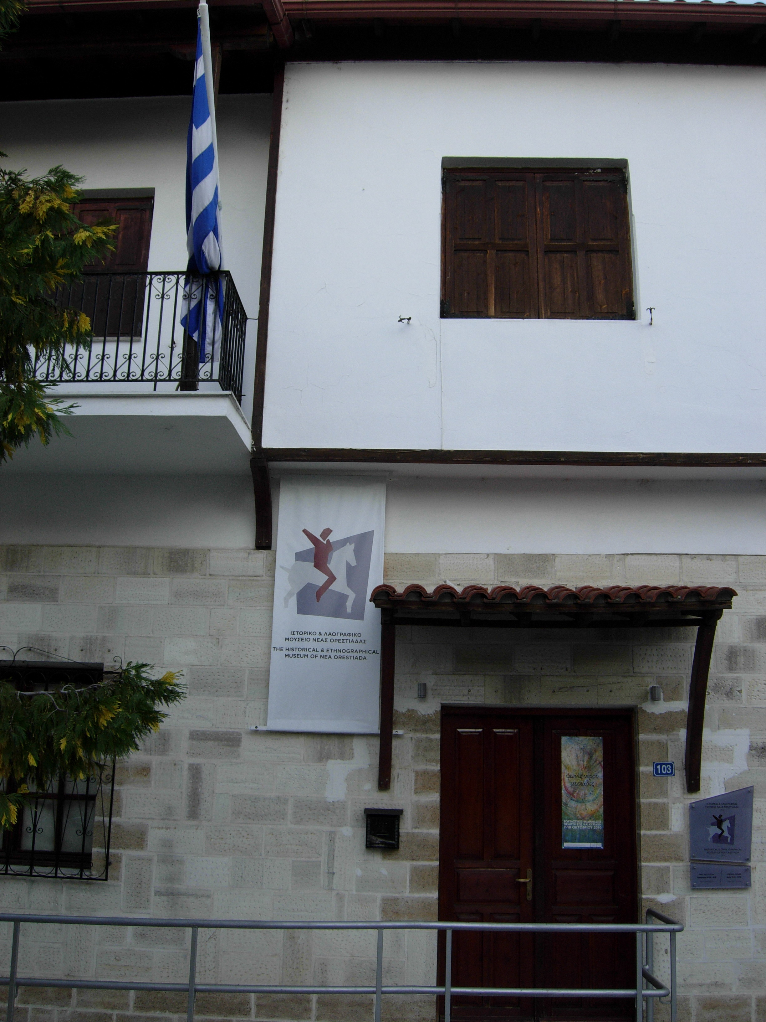 The Historical and Ethnographical Museum of the greek border town of Orestiada.